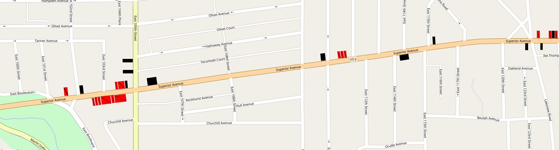 A map of Superior Avenue in 1968 in Cleveland, Ohio, in the United States, showing stores looted (in black) and looted and burned (in red, with black slash) during the Glenville Shootout and ensuing three days of rioting. Base map from OpenStreet Map. Information on arson and looting from van Vliet, W. James. "Merchants Remove Valuables, Abandon Stores, Police Charge." The Plain Dealer. July 26, 1968, pp. 1, 8. This map may be incomplete, and may contain errors. Don't rely solely on it for navigation.